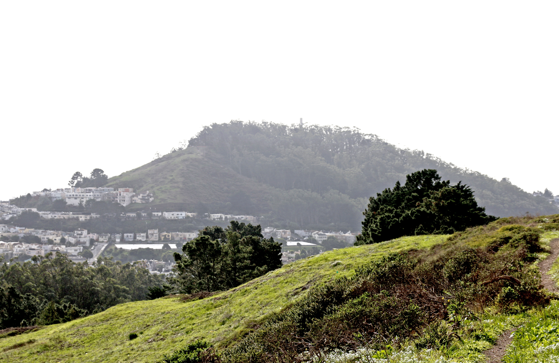 Mount Davidson in San Francisco, California as seen from the Twin Peaks. The cross at the top of the hill is just visible.